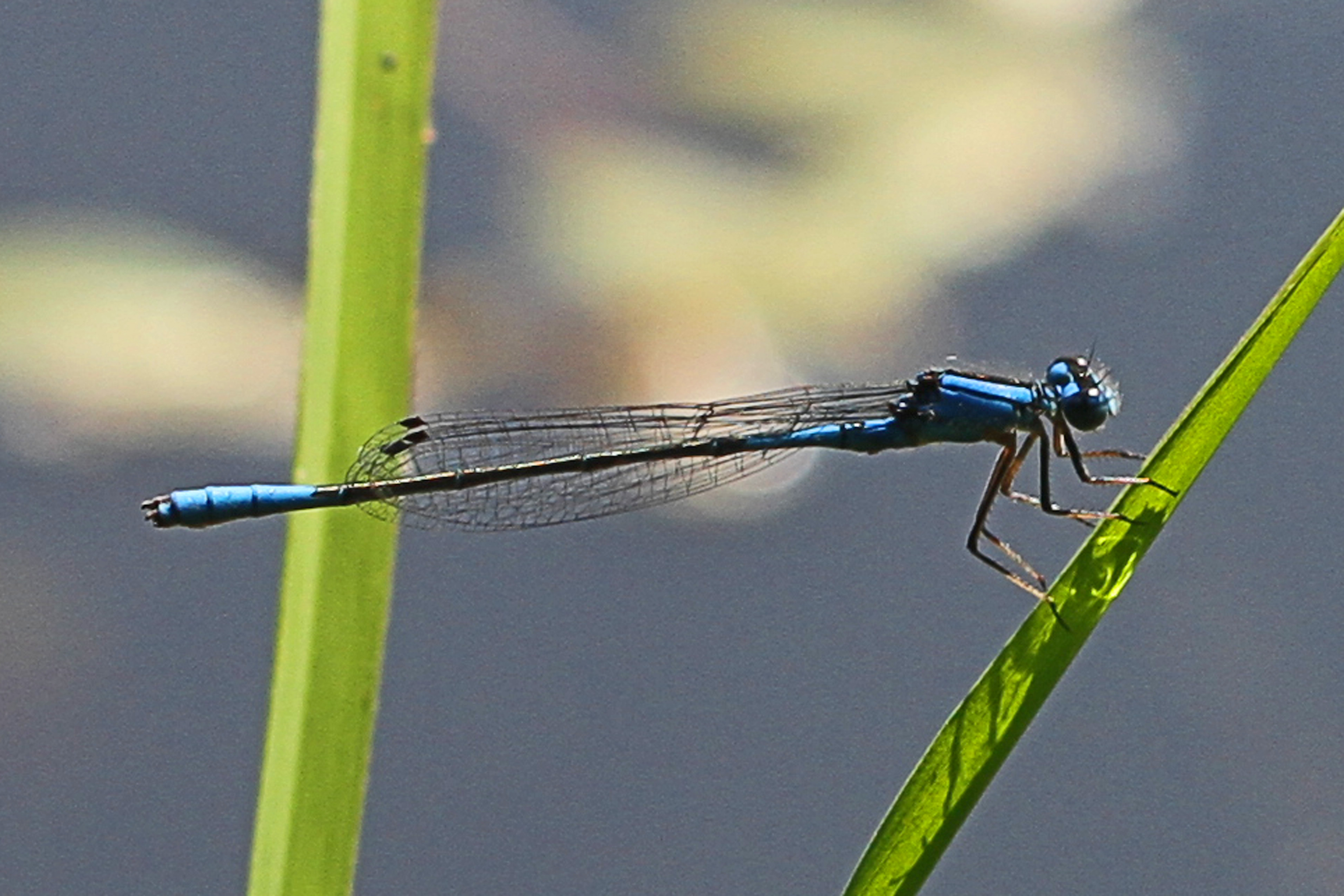 Azure Bluet - Enallagma aspersum, Patuxent National Wildlife Refuge, Laurel, Maryland